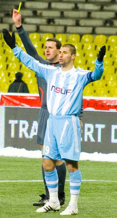 Lorik Cana